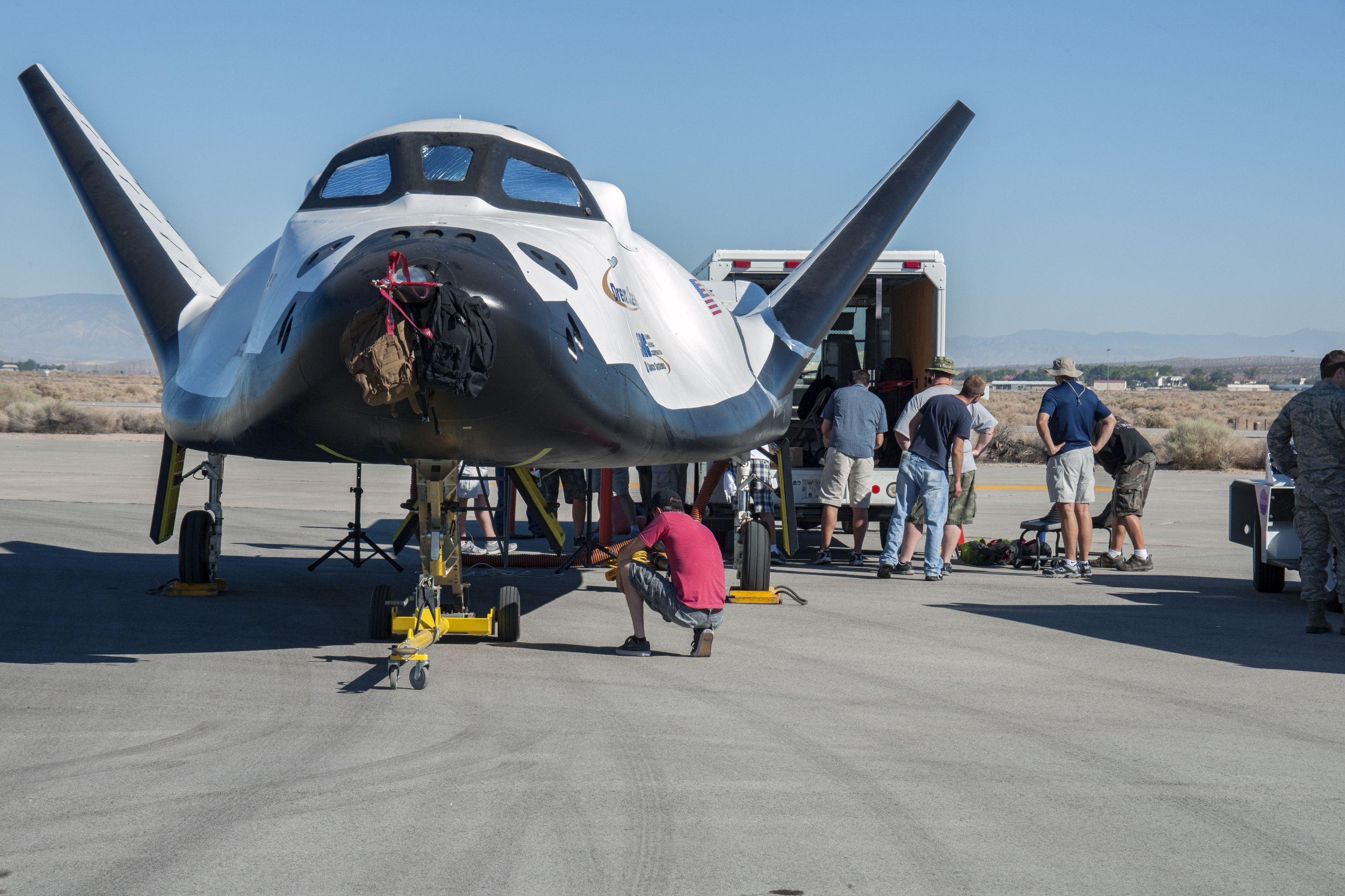 Edwards, Calif. – ED13-0215-024 - Sierra Nevada Corporation SNC Space Systems' team members prepare to tow the Dream Chaser flight vehicle along a concrete runway at NASA's Dryden Flight Research Center in California for range and taxi tow tests. The ground testing will validate the performance of the spacecraft's nose skid, brakes, tires and other systems prior to captive-carry and free-flight tests scheduled for later this year. SNC is one of three companies working with NASA's Commercial Crew Program, or CCP, during the agency's Commercial Crew Integrated Capability, or CCiCap, initiative, which is intended to lead to the availability of commercial human spaceflight services for government and commercial customers.